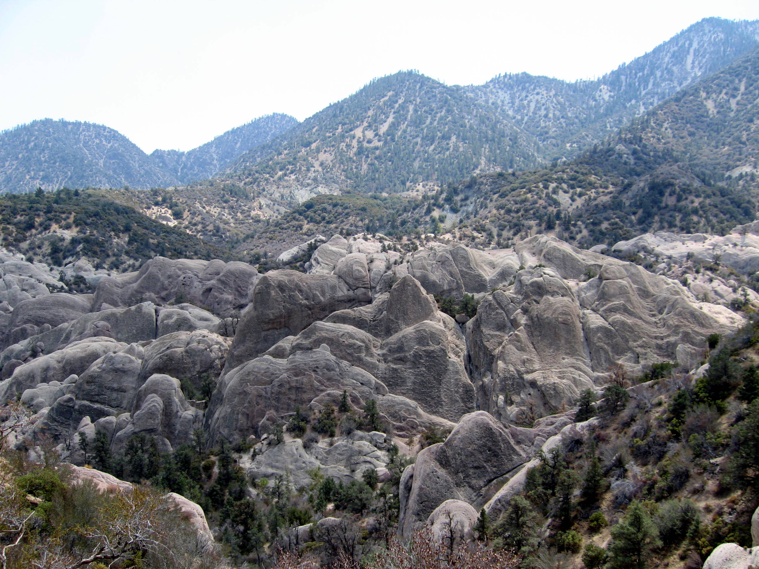 A photo of a section of Devil's Punchbowl (California), taken from the top of the hiking trail.